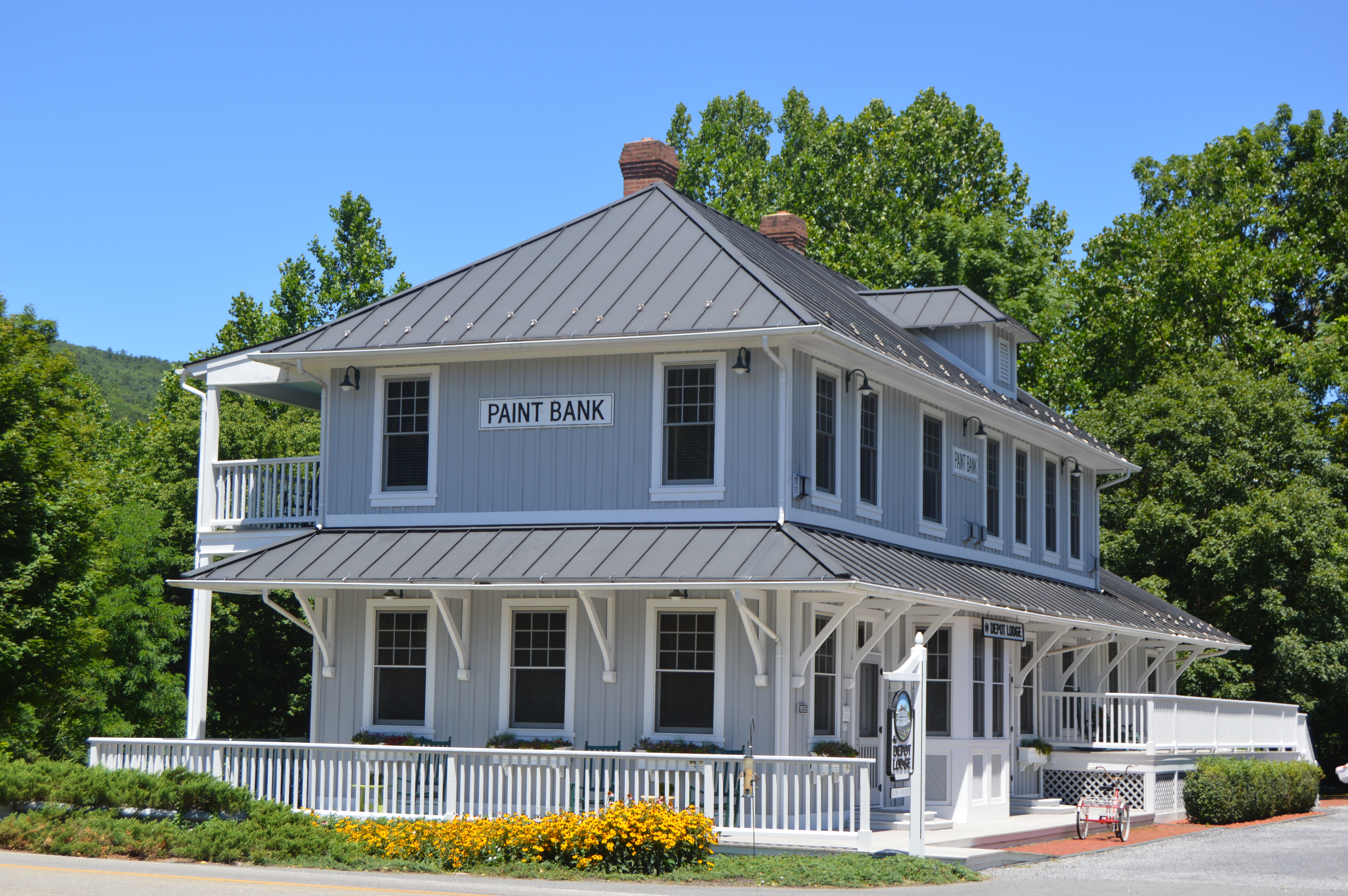 Front and eastern side of the former train station on State Route 311 in Paint Bank, Virginia, United States.